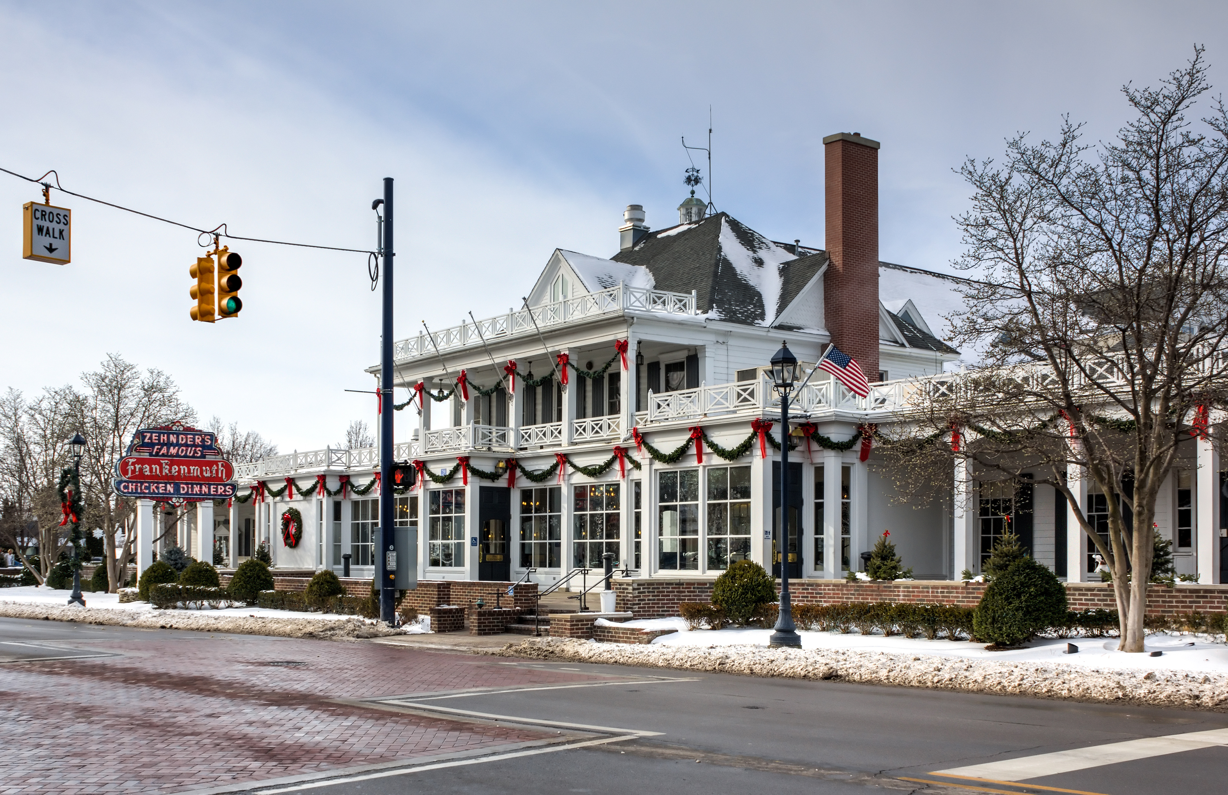 Zehnder's Chicken Restaurant, Frankenmuth, Michigan, 2015-01-11